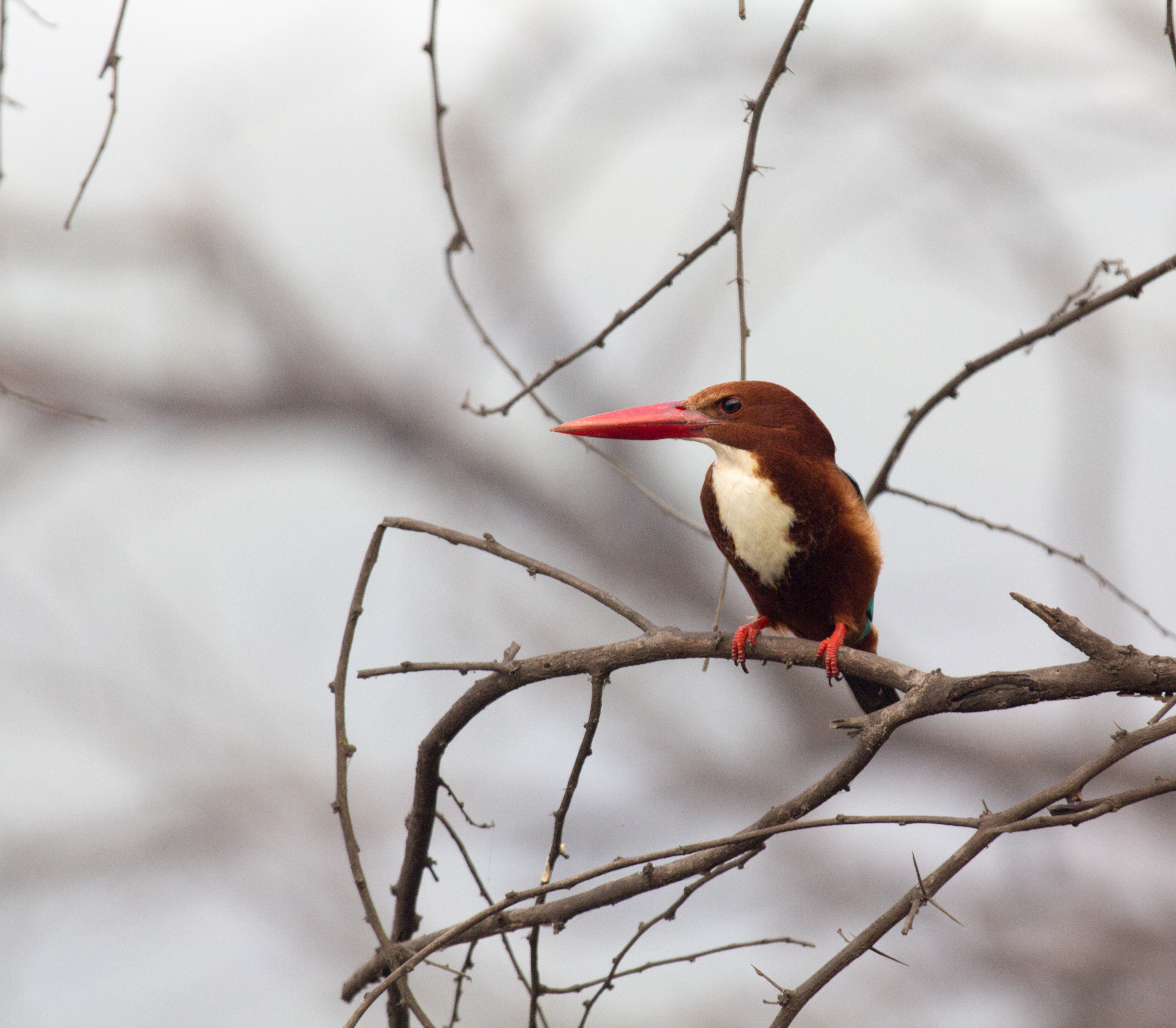 A White-throated Kingfisher (Halcyon smyrnensis) looking for fish at the Sultanpur National Park